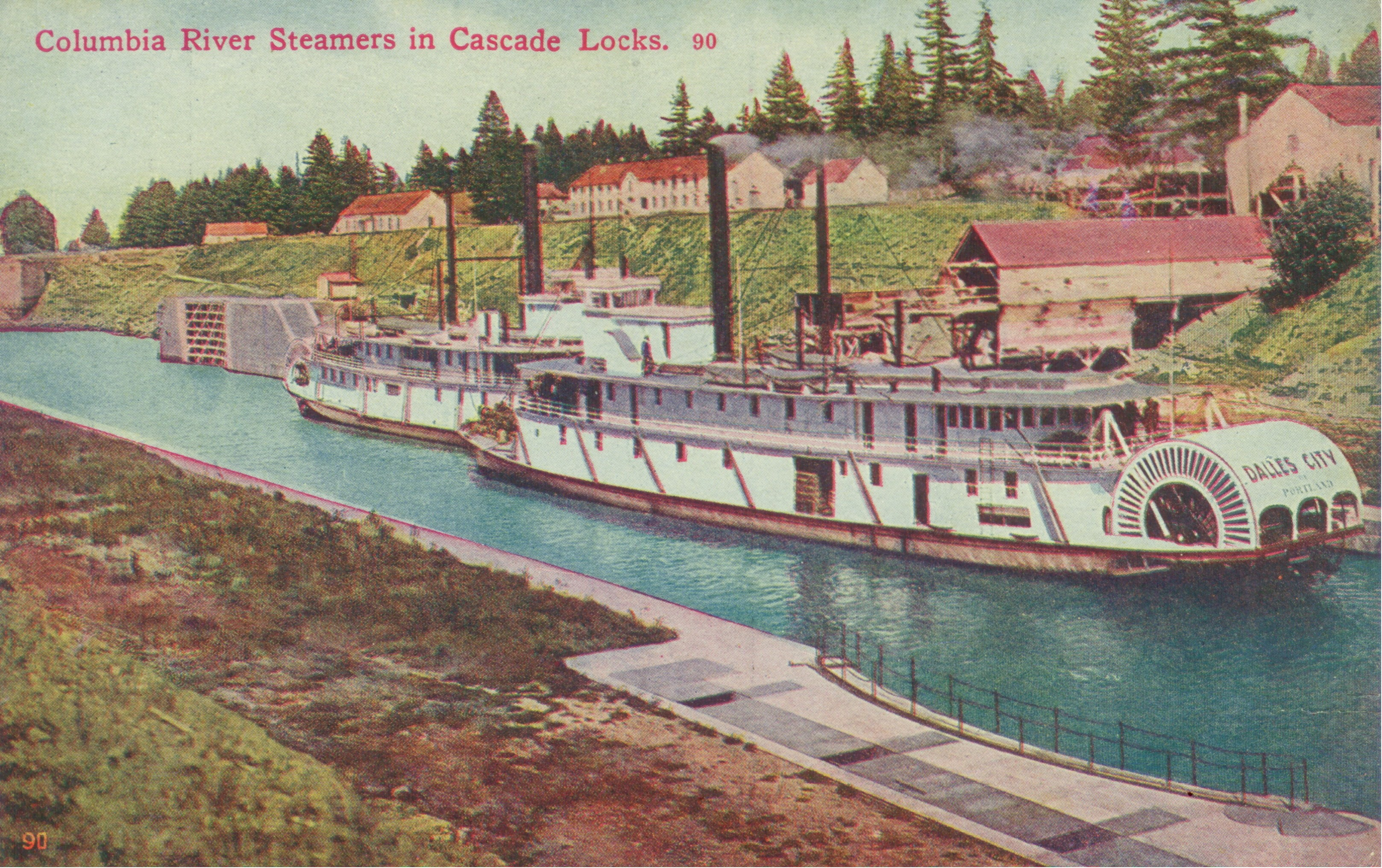 This is from a hand-colored divided back post card, appears to have been published about 1910 from the reverse of the card and from the photo on the front. No copyright marking is shown anywhere on the card